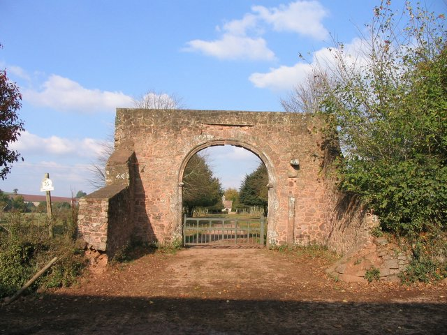 Archway, circa 1590, of the former gatehouse of the demolished Acland family mansion house of Columb John in the parish of Broadclyst, Devon. The house was abandoned by the Aclands who moved to adjacent Killerton House. At the start of the footpath leading to the woods adjoining Killerton woods. In the distance is visible St John's Chapel, built in 1851 by a member of the Acland family on the site of an ancient private chapel of the mansion house of Columb John. (Pevsner, Nikolaus & Cherry, Bridget, The Buildings of England: Devon, London, 2004, p.279)